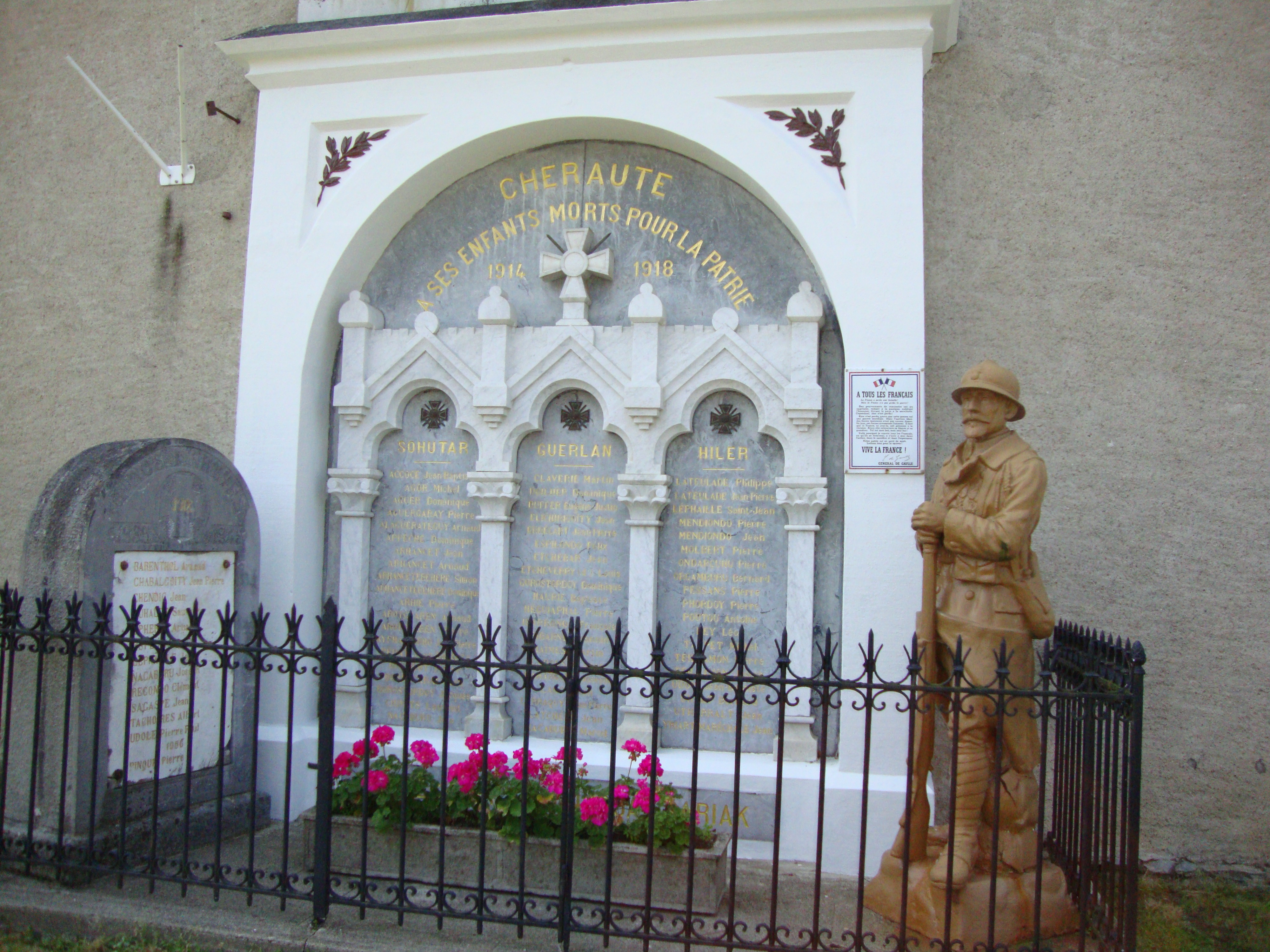 Chéraute (Pyr-Atl, Fr) war memorial